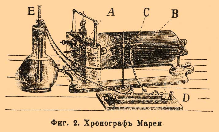 Illustration from Brockhaus and Efron Encyclopedic Dictionary (1890—1907)